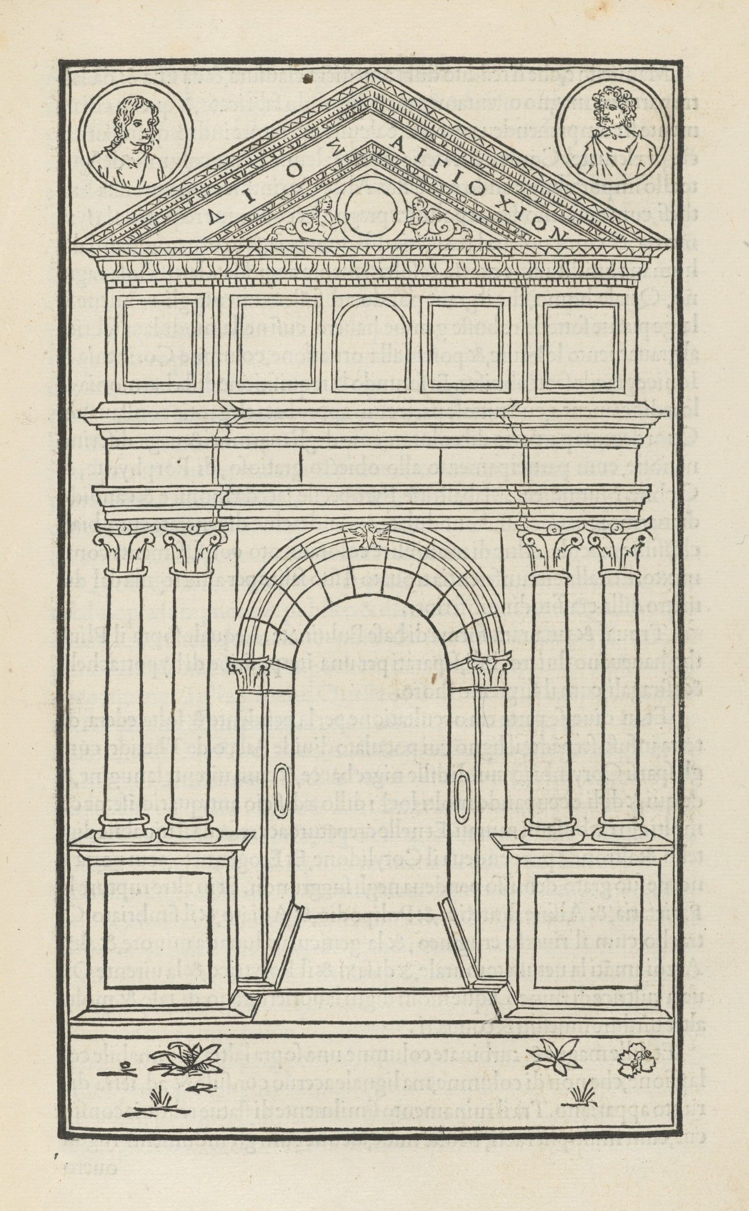 Illustration from Hypnerotomachia Poliphili, Venice: 1499, by Francesco Colonna. WKR 3.5.4, Houghton Library, Harvard University